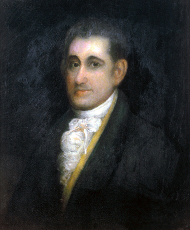 John Adair (1757–1840), the eighth Governor of the U.S. state of Kentucky .